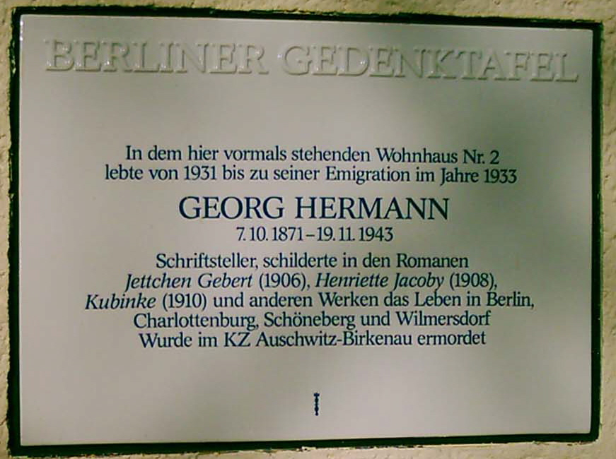 Berlin memorial plaque for Georg Hermann in Berlin-Wilmersdorf, Germany